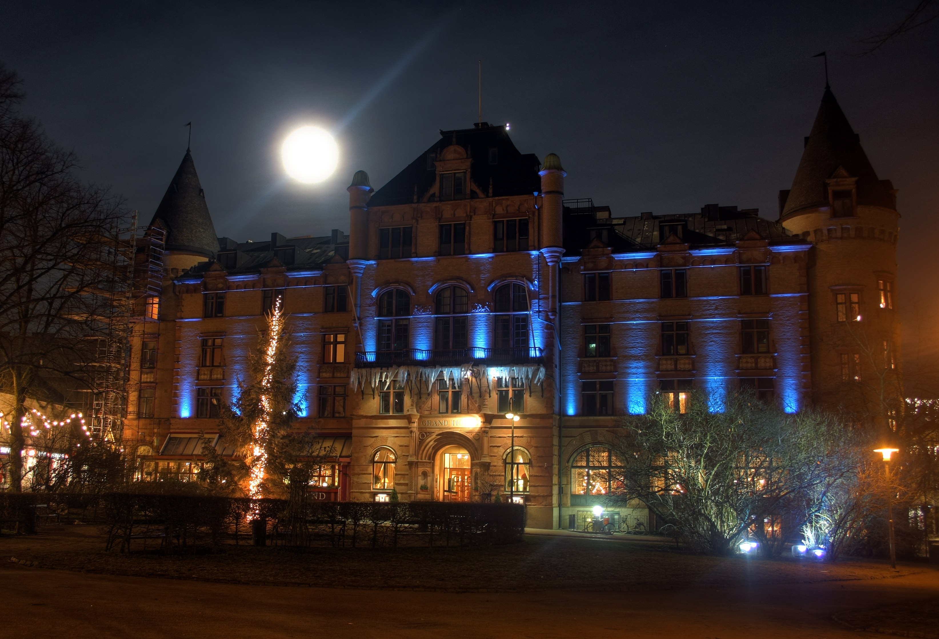 Grand Hotel in Lund, Sweden. The image has been assembled from three exposures with HDR software.